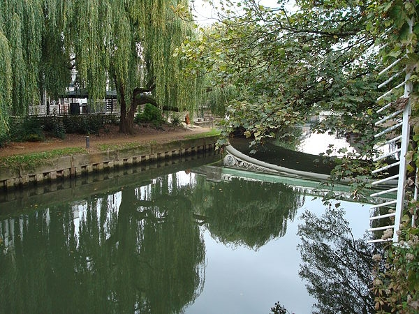 S Knights, my pic, Oct 2007